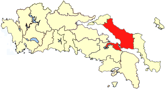 Chalkida province